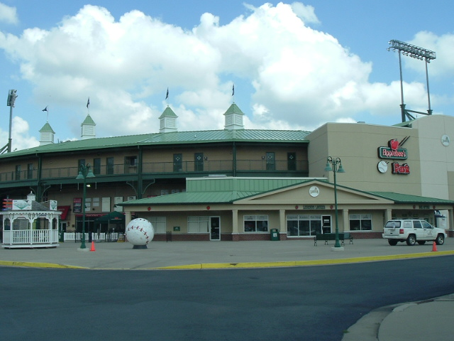 Applebee's Park in NorthLex